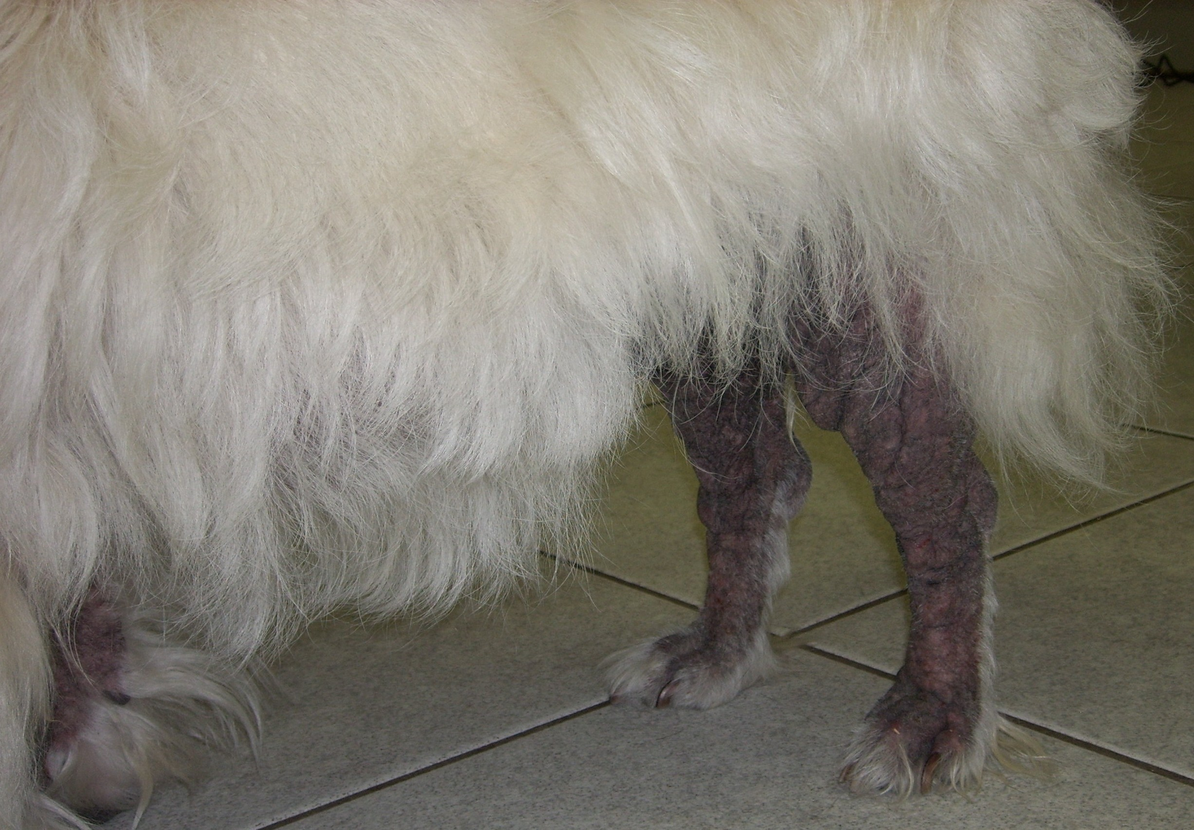 Sarcoptes mange in a dog